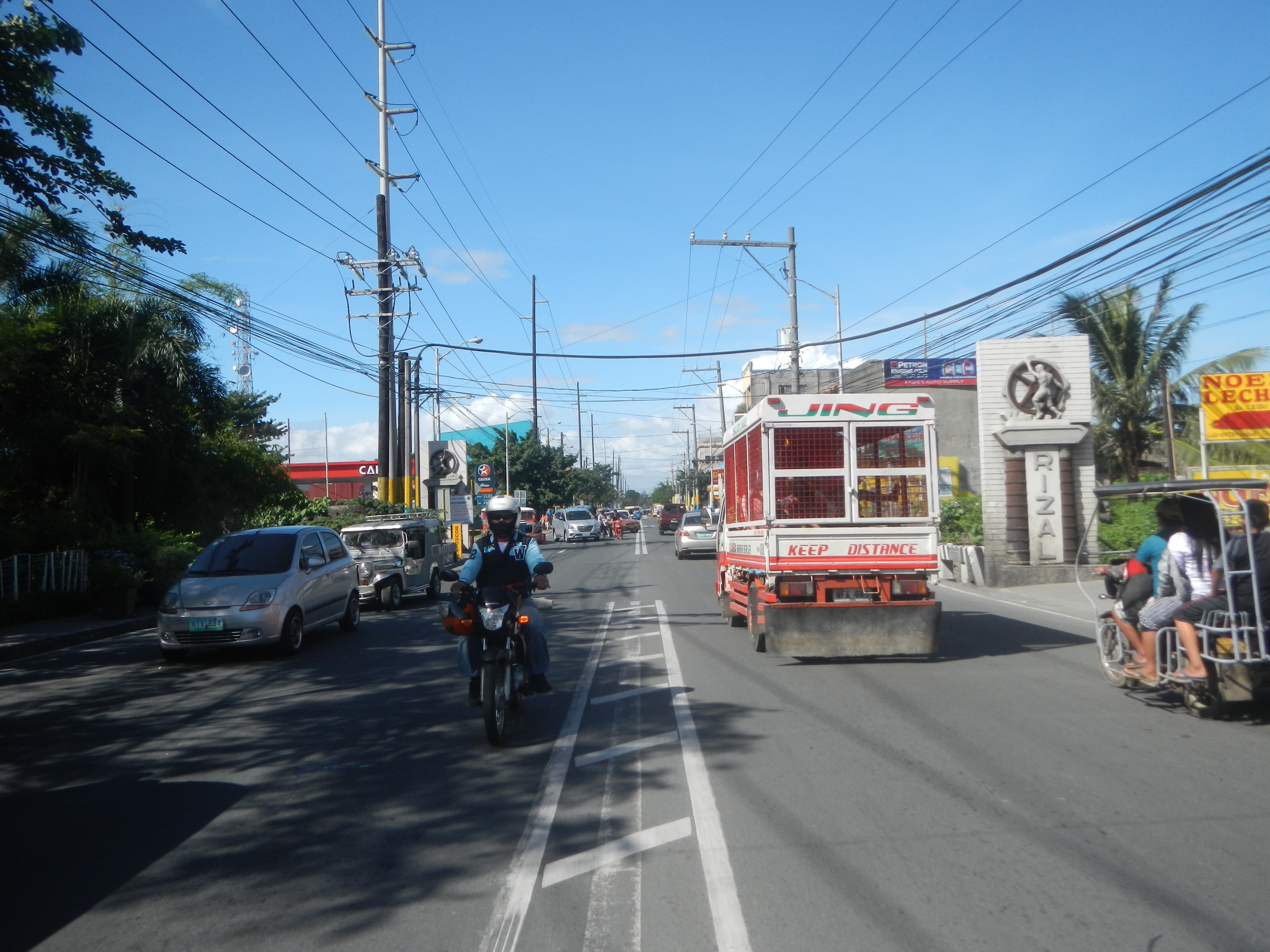 Rizal & Laguna Provinces welcome-boundary signs-monument (Muntinlupa Bridge and Creek, Daang Maharlika, Tunasan Muntinlupa City & San Antonio, San Pedro, City of Laguna) Sta. K0030+783 Load limit 20 metric tons; San Pedro "Manok" Welcome monument, Benedicto H. Austria San Pedro Gateway Park, Guiness World Records Certificate-monument of longest fresh flower lei & F. A. Vierneza grandstand (Daang Maharlika & Mabini Street, San Antonio, San Pedro, Laguna) National Road (Tunasan, Muntinlupa City) Barangay Center of Tunasan, Muntinlupa City along National Road (Tunasan, Muntinlupa City) Barangays Tunasan Tunasan 14°22'1"N 121°1'58"E City of Muntinlupa interconnecting with boundary neighbor Barangays Nueva 14°21'17"N 121°3'37"E and San Antonio 14°20'53"N 121°1'54"E San Antonio, San Pedro, Poblacion 14°21'46"N 121°3'32"E San Roque 14°21'51"N 121°3'46"E Landayan 14°21'11"N 121°4'3"E San Pedro, Laguna National Road (San Antonio, Nueva and Landayan, City of San Pedro, Laguna) (Note: Judge Florentino Floro, the owner, to repeat, Donor Florentino Floro of all these photos hereby donate gratuitously, freely and unconditionally all these photos to and for Wikimedia Commons, exclusively, for public use of the public domain, and again without any condition whatsoever).